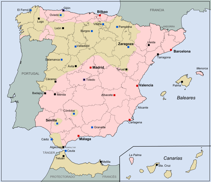 Modification of File:GCE frente en jul 1936.svg with information of File:VictorHurtado-LaSublevacion-MapaFinal.jpg